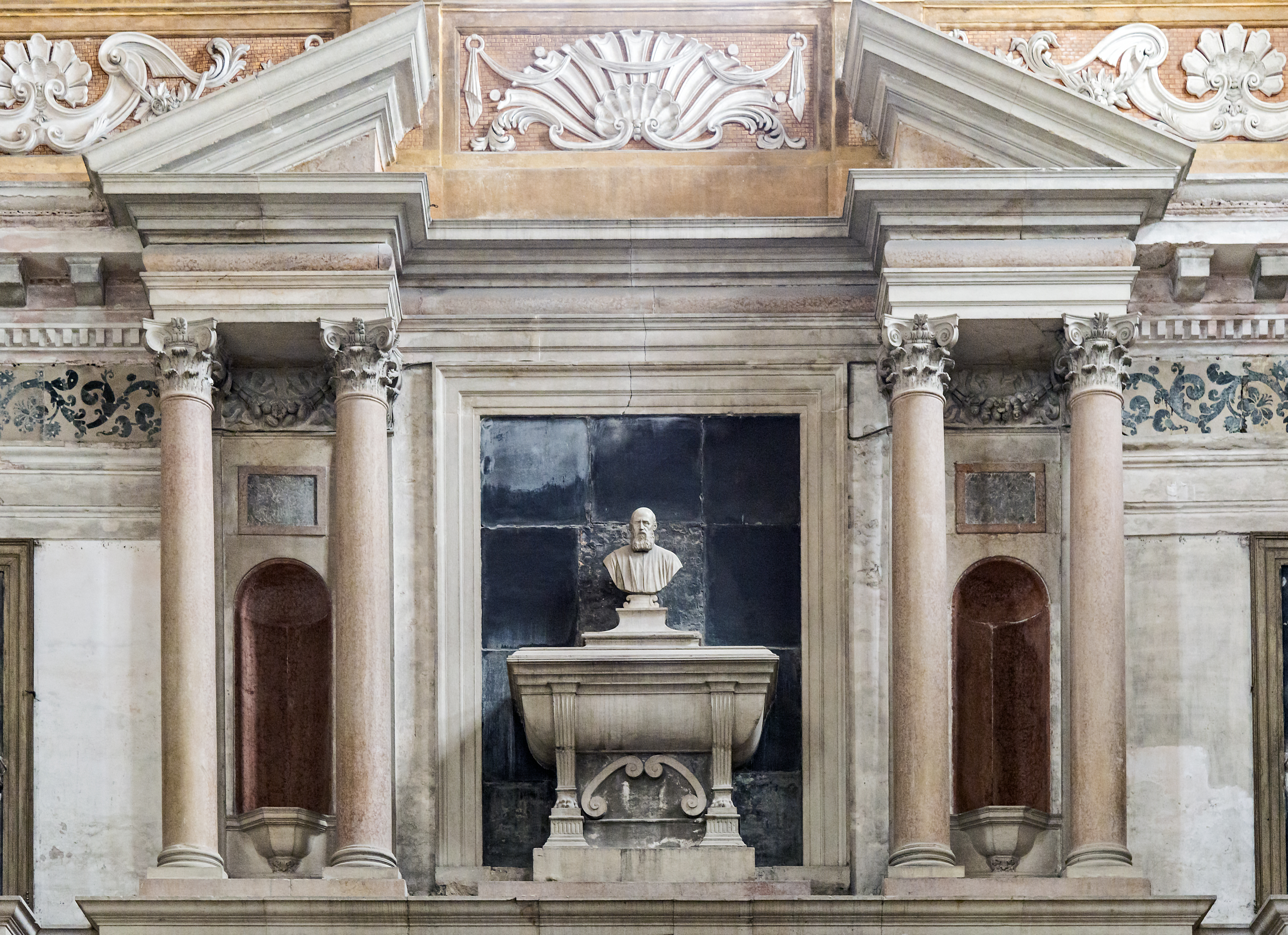 I Gesuiti, Venice Counter-façade - Monument to Priam Da Lezze by Jacopo Sansovino, bust of Alessandro Vittoria.